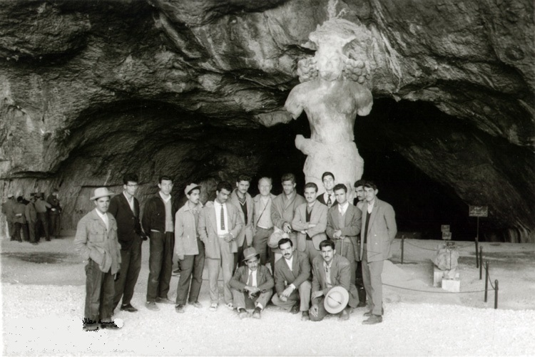 Jalal Al-e-Ahmad